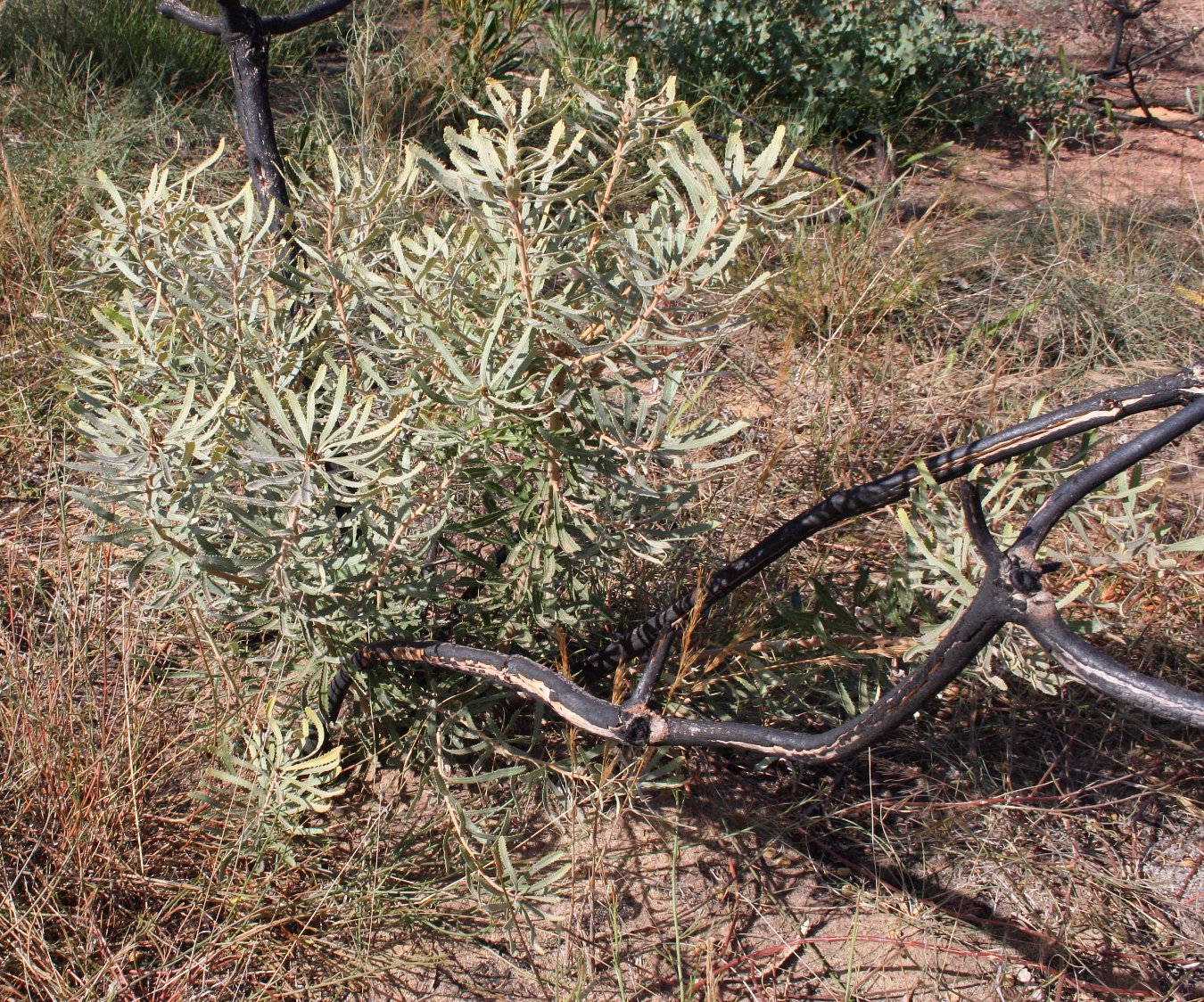 Banksia attenuata resprouting after fire, Burma Road, WA April 2006 photo Cas Liber